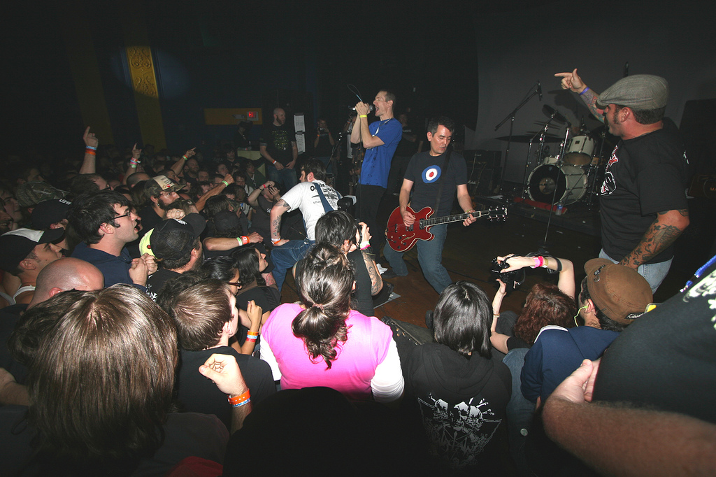 10-26-2007 @ The Venue, Gainesville